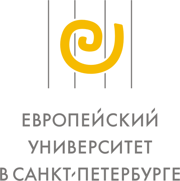 EUSP logo (Russian)